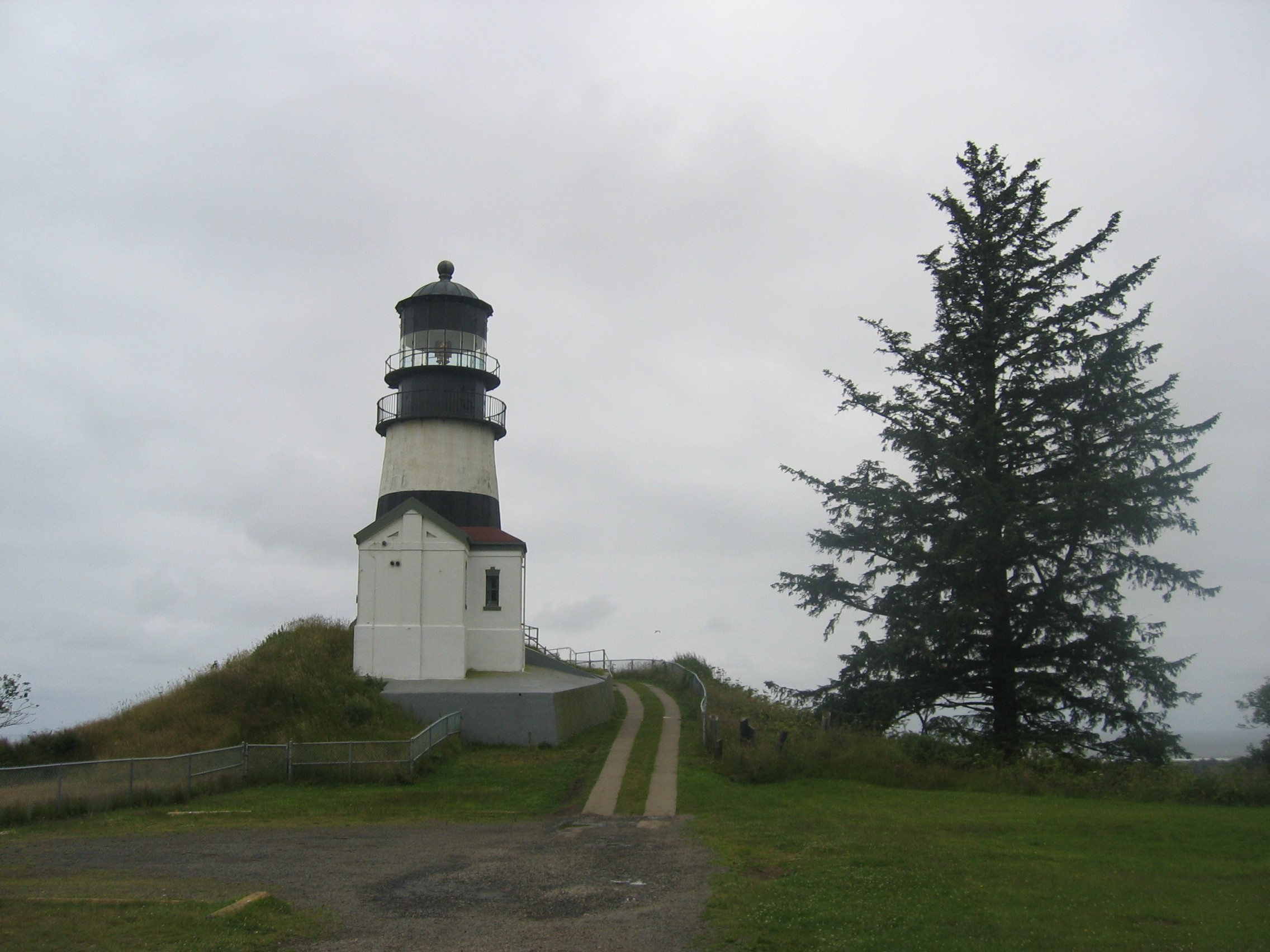 Photo of the Cape Disappointment Lighthouse at mouth of the Columbia River in Washington State, USA.